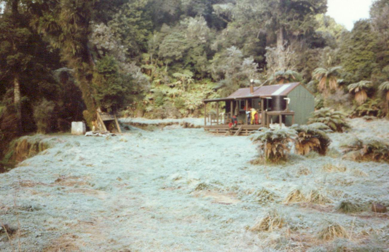 Mangamate Hut in Whirinaki Forest Park, New Zealand. A frost is evident on the grass in the foreground.